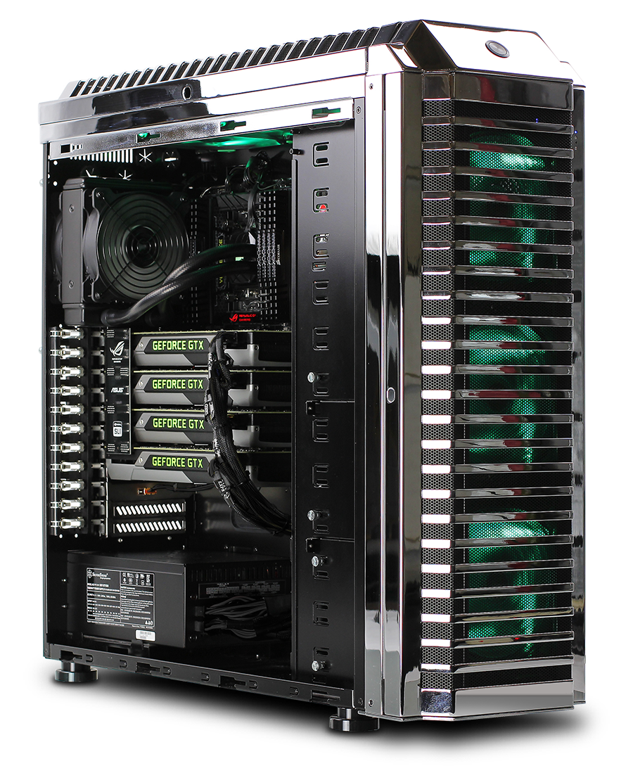 Quad GeForce GTX Titan Black Ultimate GPU Gaming Computer by AVADirect Custom Computers